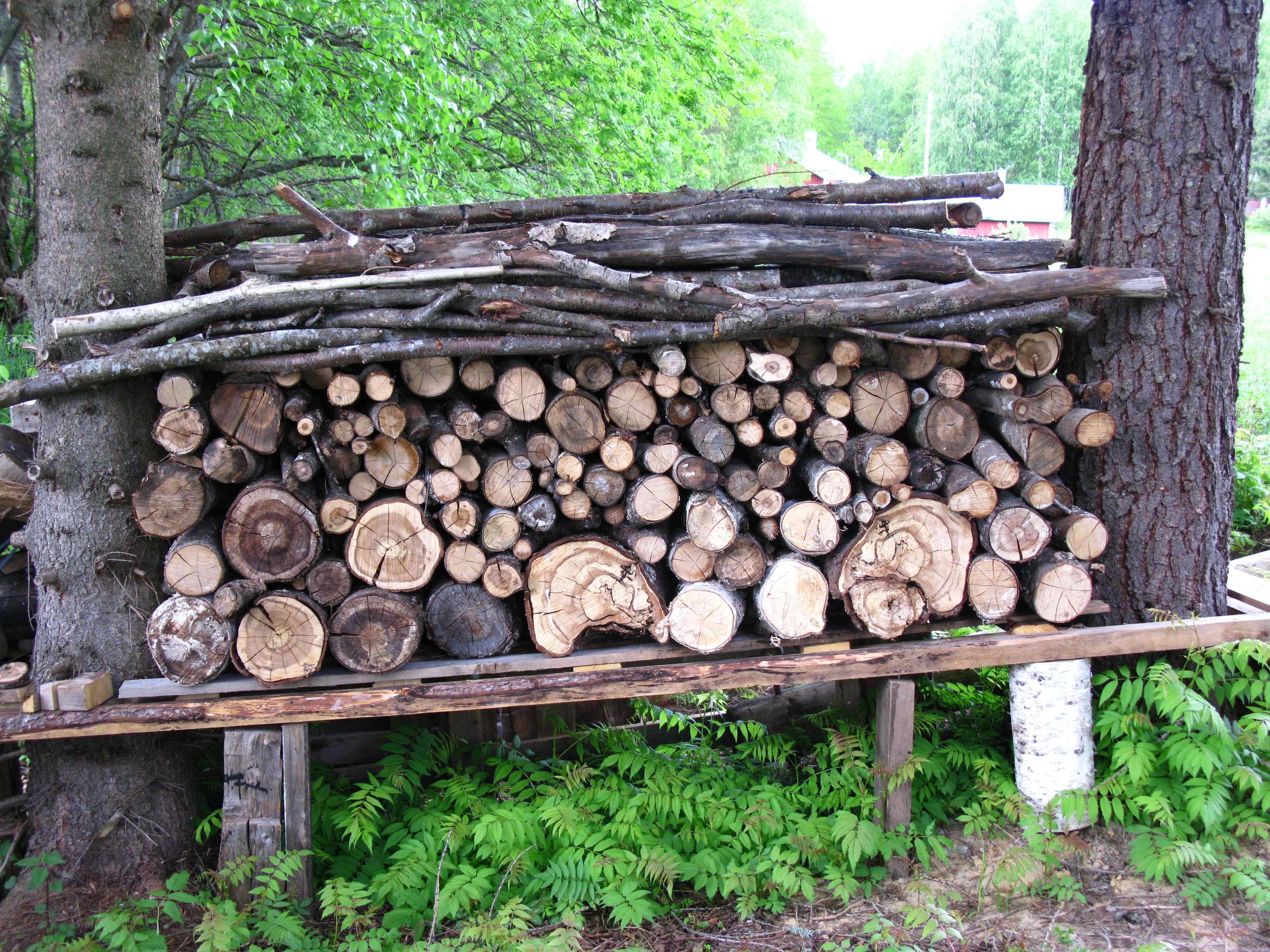 Pile of firewood for sauna in Finland.